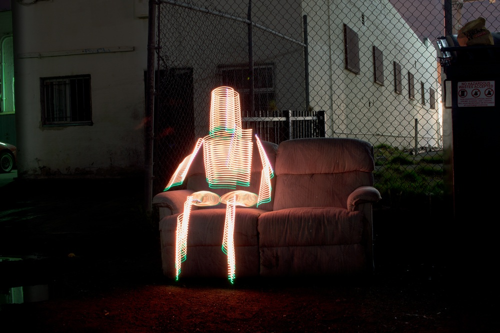 This is a light painting by 2wenty titled, "Lightman", 2013 to be used on the 2wenty wiki.